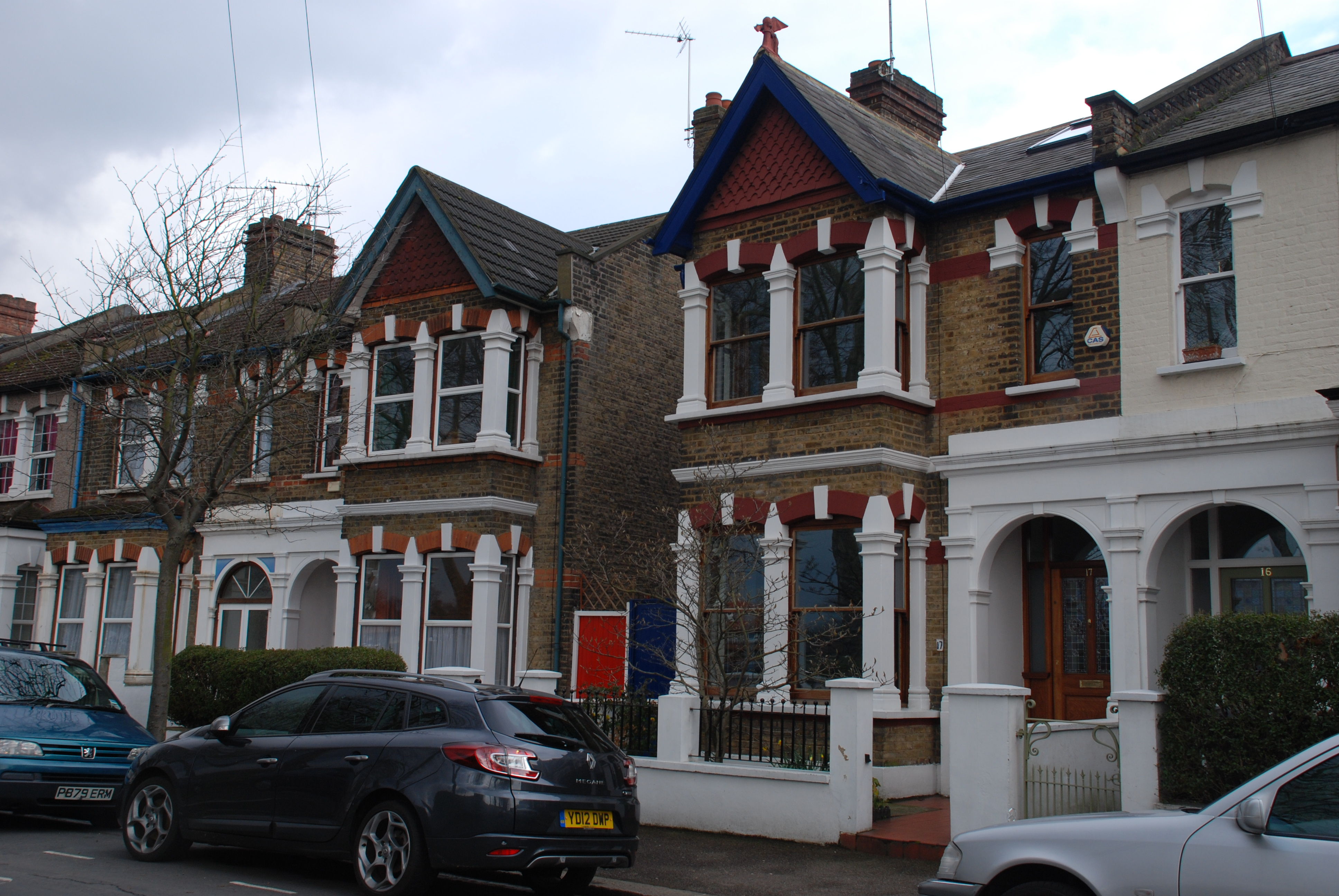 Terraced homes in Leyton, east London